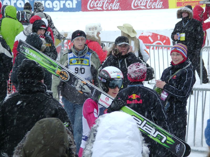 ski jumper Volodymyr Boshchuk from Ukraine during the World Cup in Zakopane on 27-1-2008